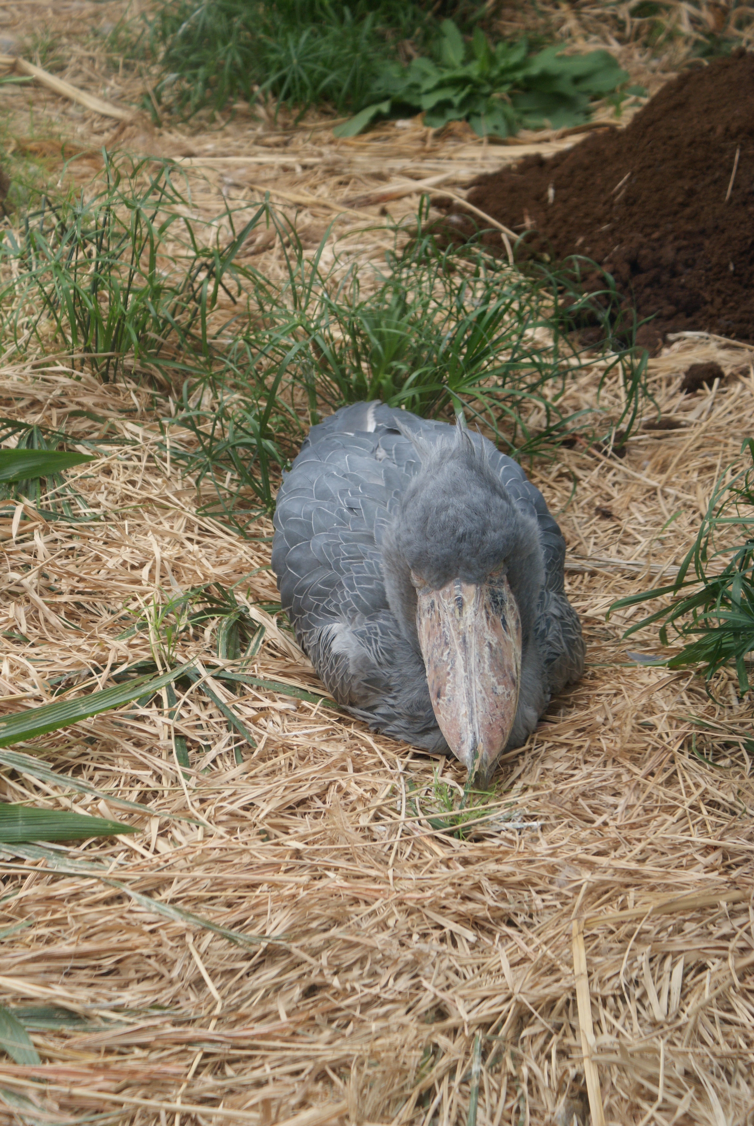 Balaeniceps rex in Prague Zoo